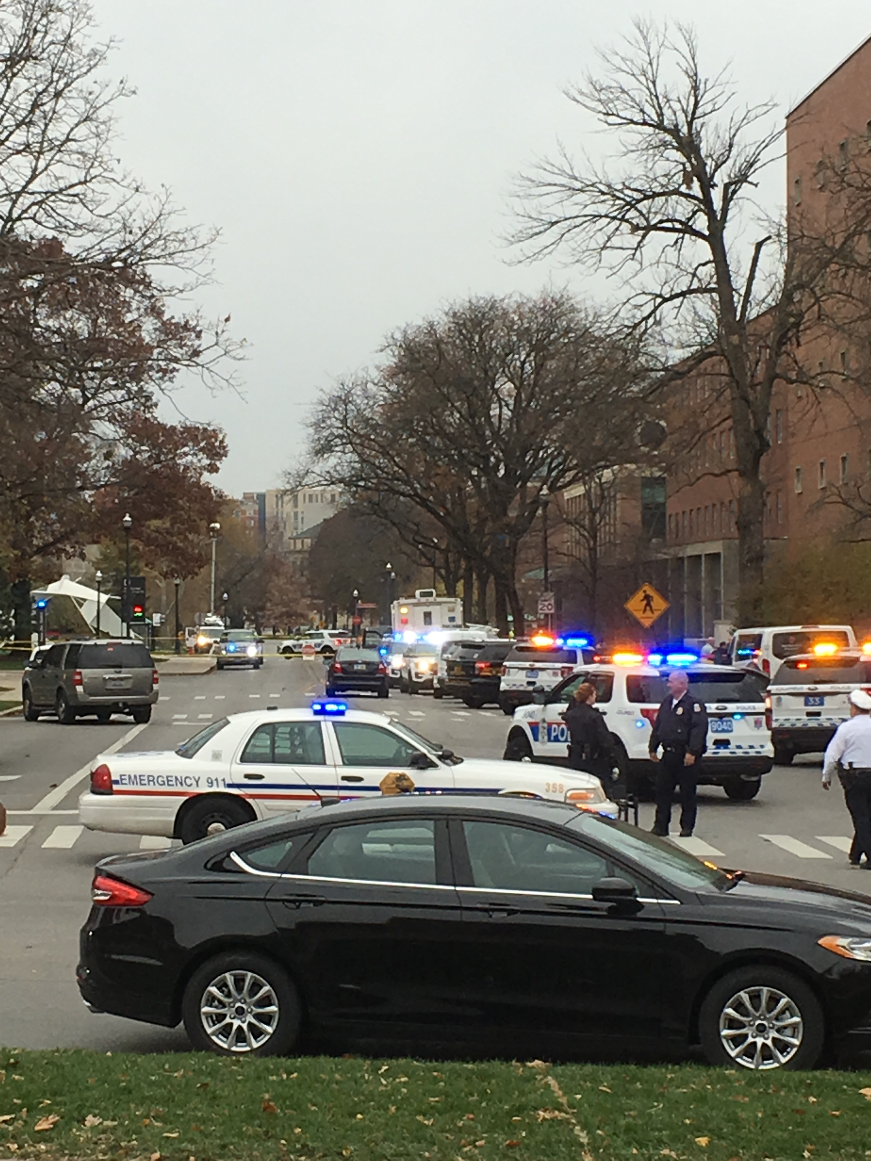 Police Response outside of Watts Hall, the site of the attack.